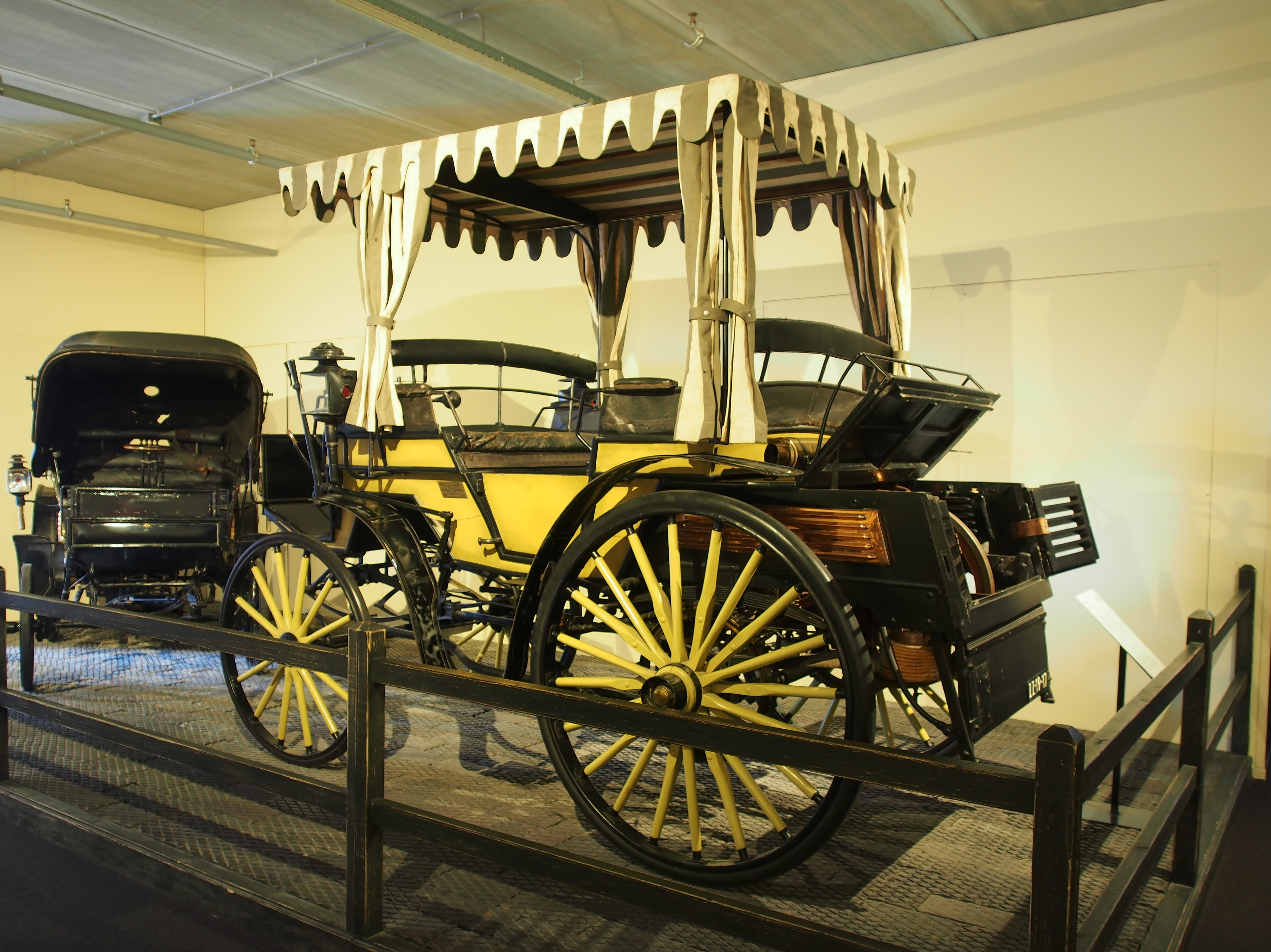 1895 Benz 5hp Phaeton photographed at the Louwman museum.